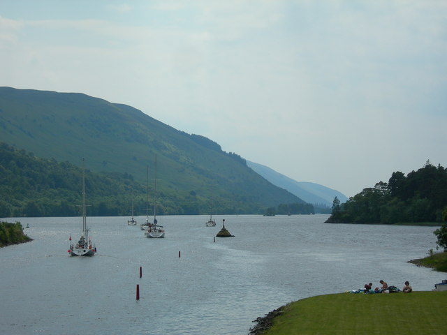 Loch Oich. At the Aberchalder Swing Bridge